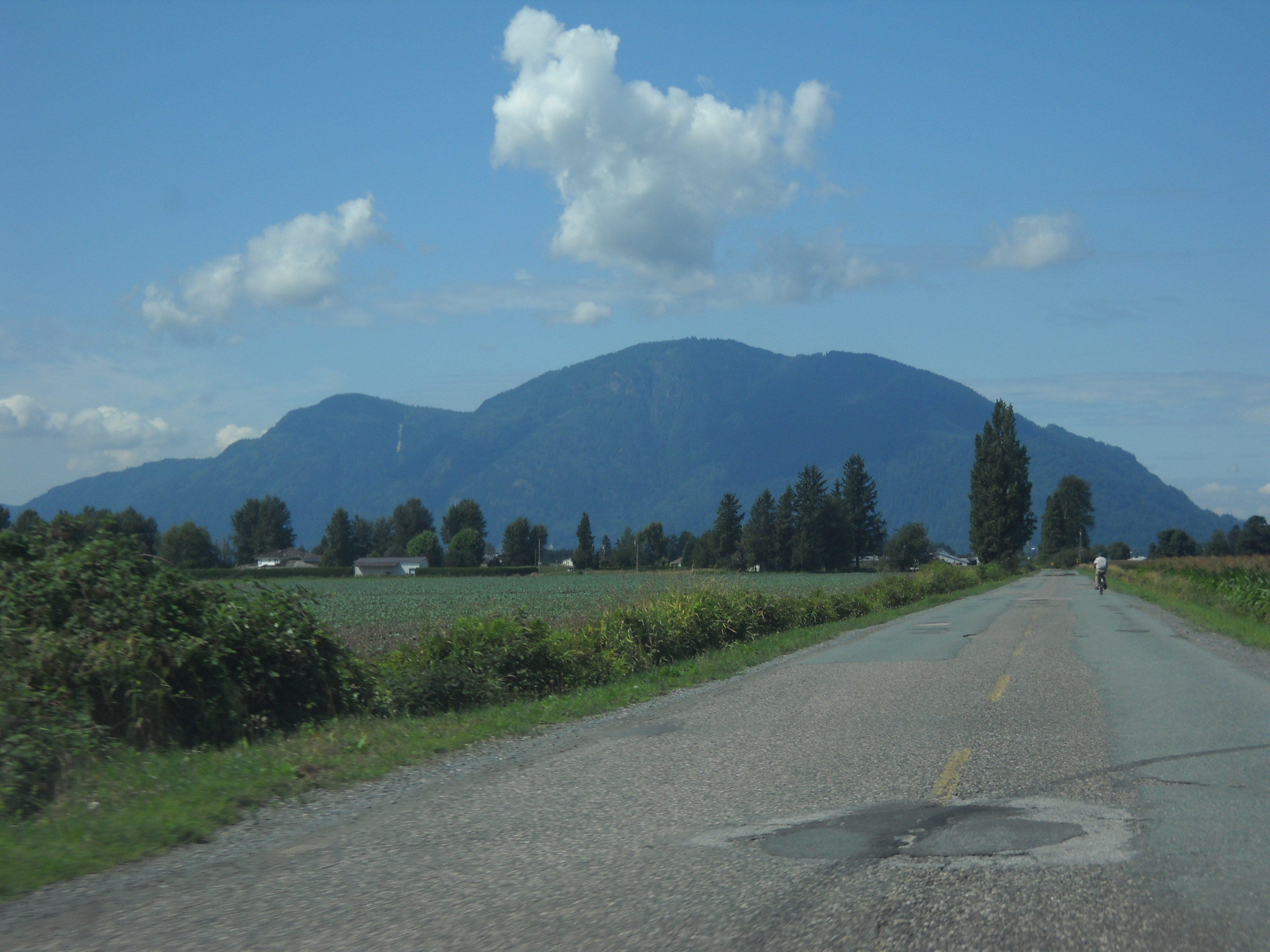 Sumas Mountain from Sumas Central Road. For additional details on this image, see File talk:Sumas Mountain.jpg.